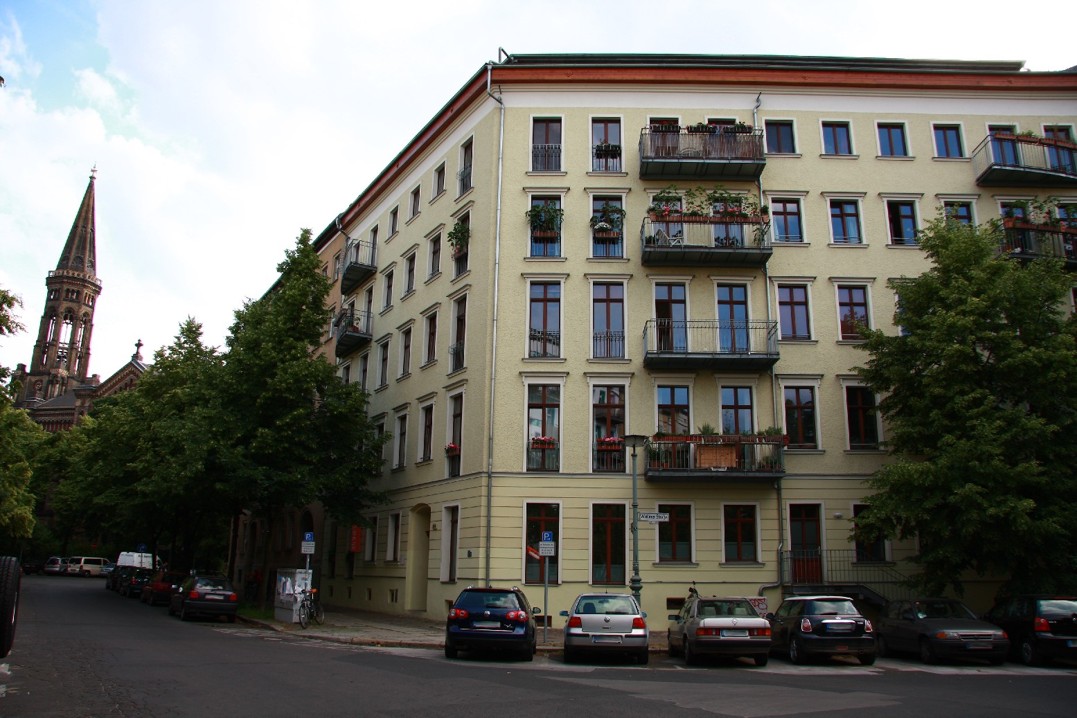 The House of Wilhelm von Osten